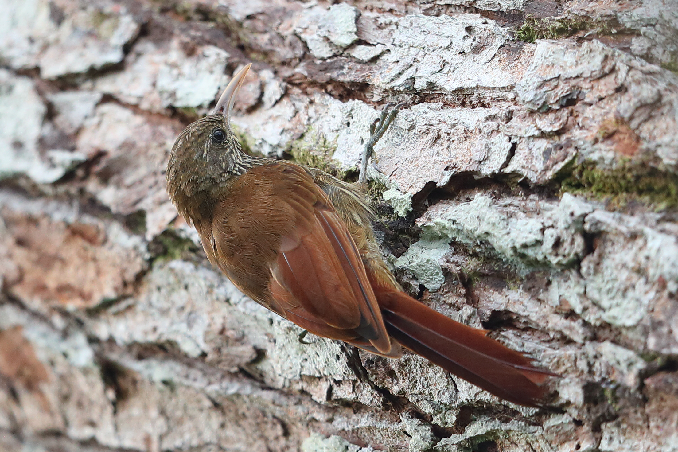 Duida Woodcreeper; Iquitos, Peru